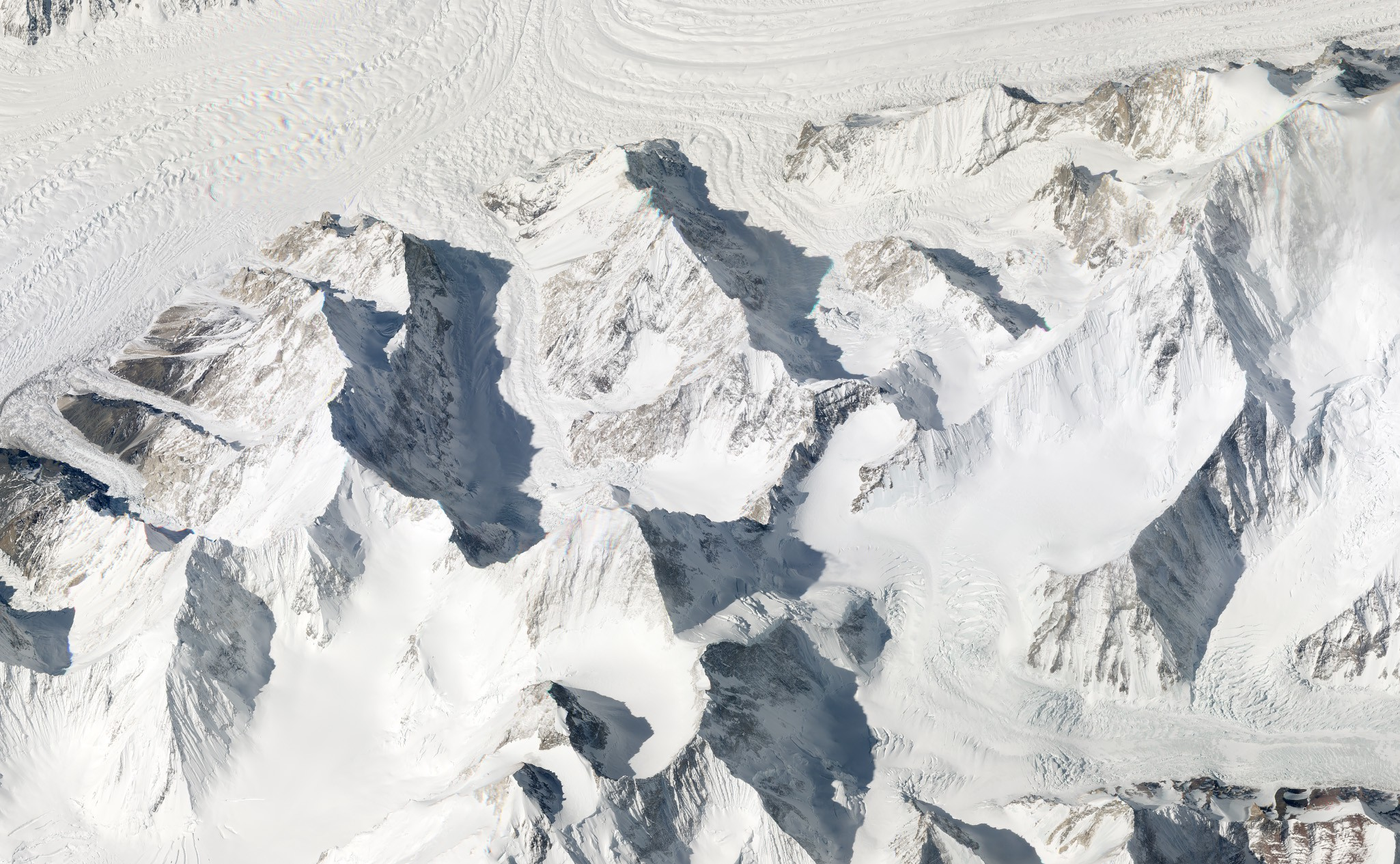 SkySat satellite image of Gasherbrum Massif, Pakistan